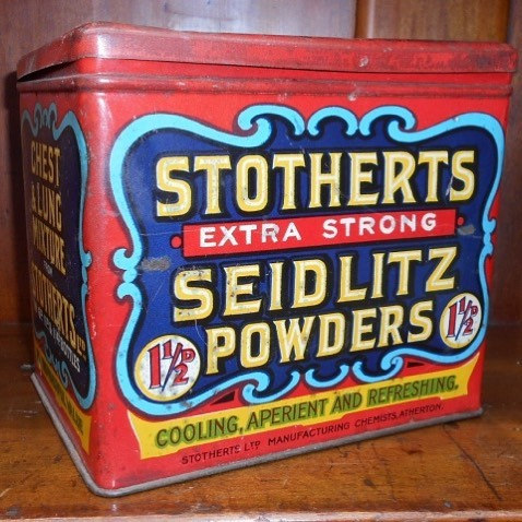 Stotherts Seidlitz Tin 1800's